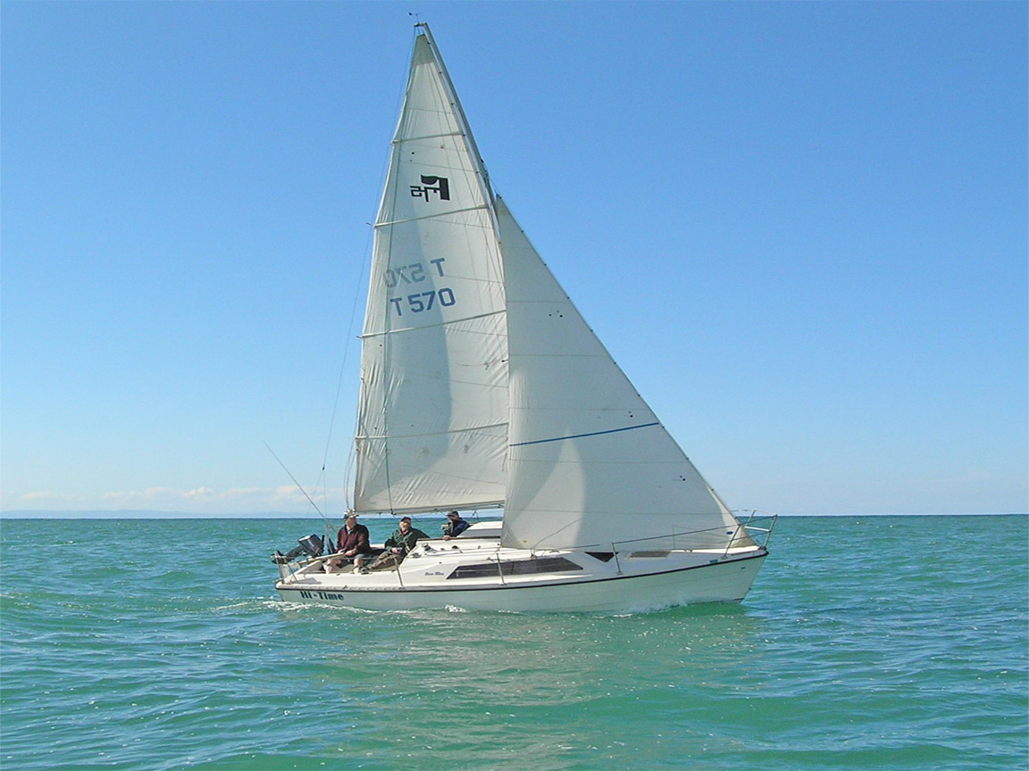 Hi Time, a Farr 7500 (7.5m), a popular trailer sailer designed by Bruce Farr